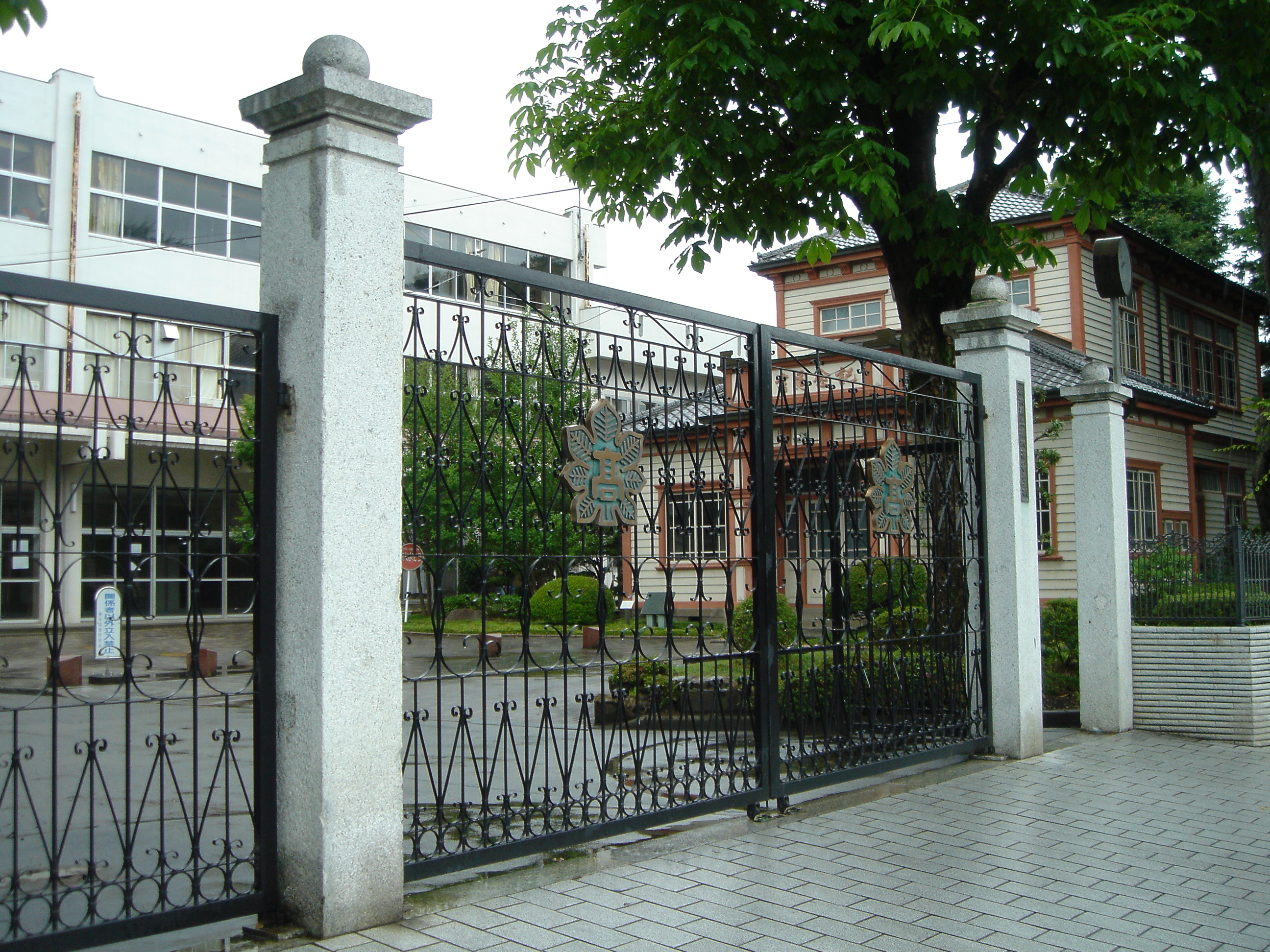 The main gate of The Tochigi High School(Japan)